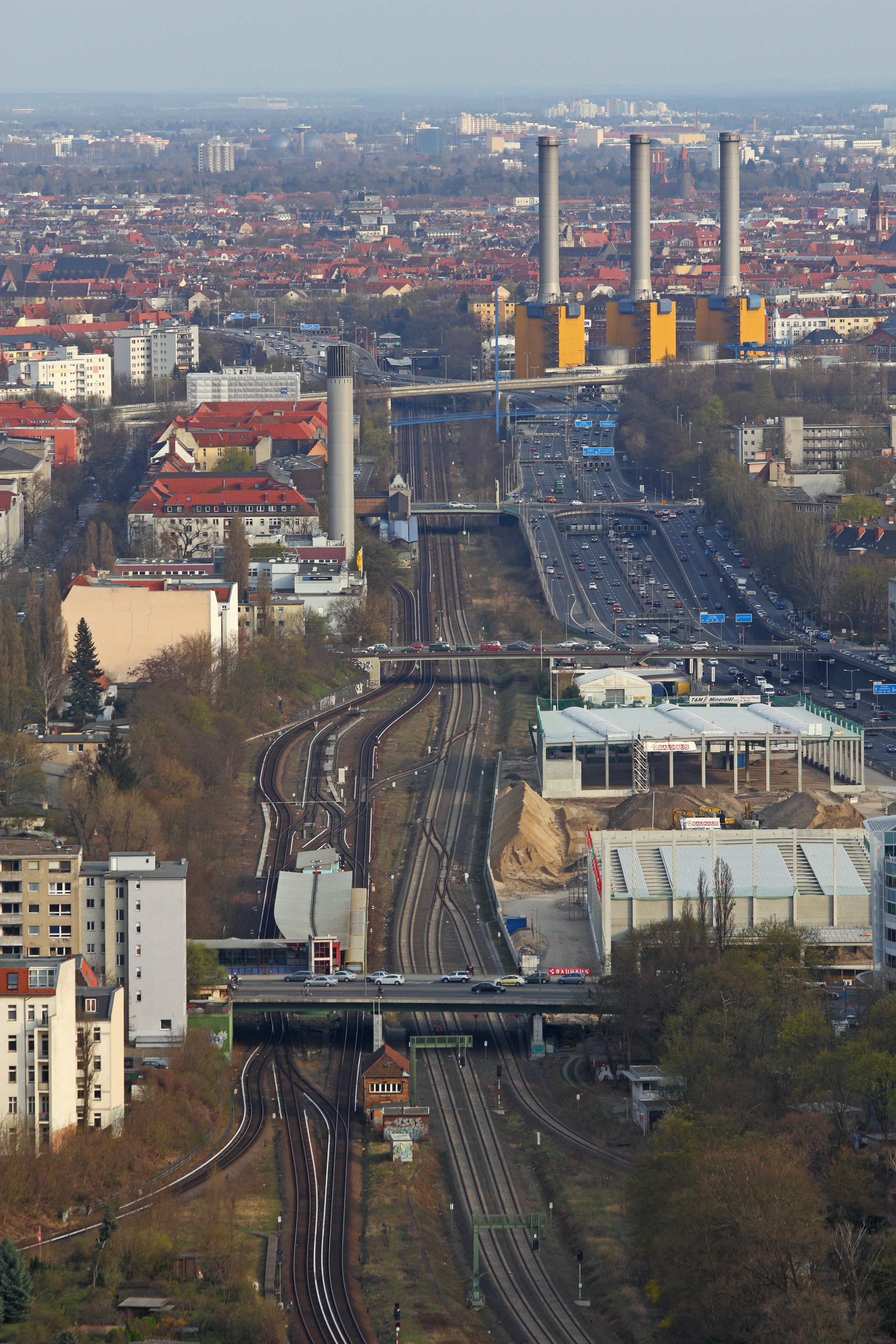 Berlin views from Radio Tower at the Trade Fair.